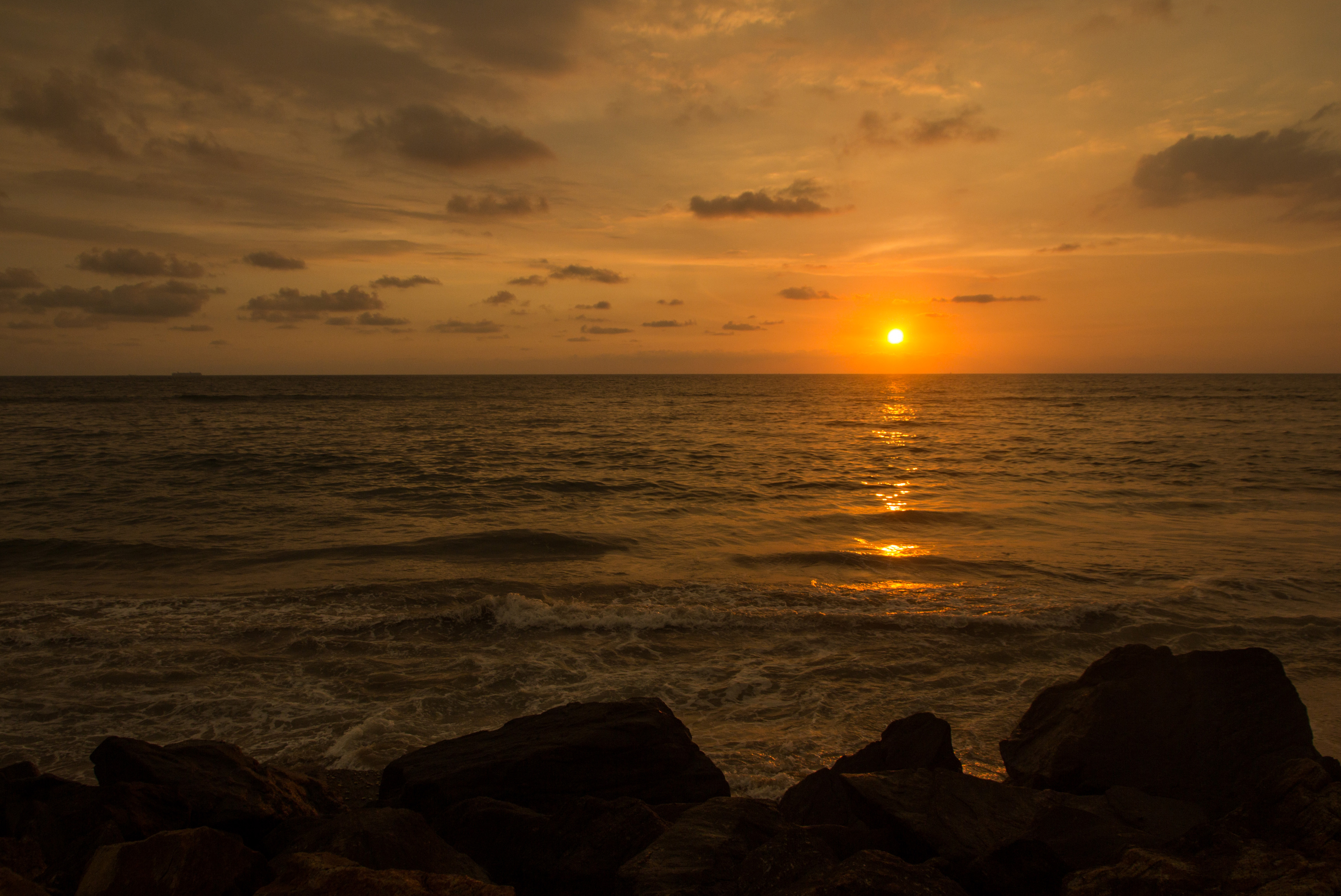 Sunset over Laccadive Sea